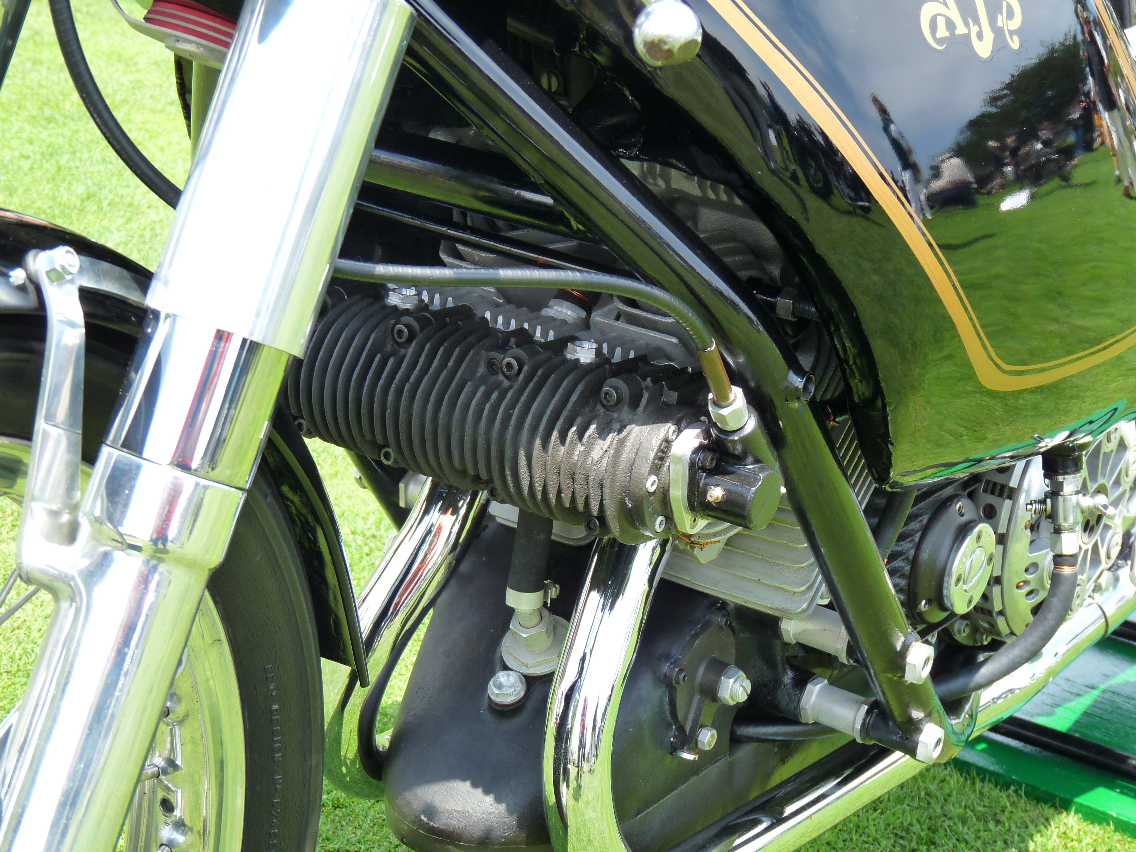 1954 AJS E95 Porcupine racing motorcycle engine as seen at Pebble Beach